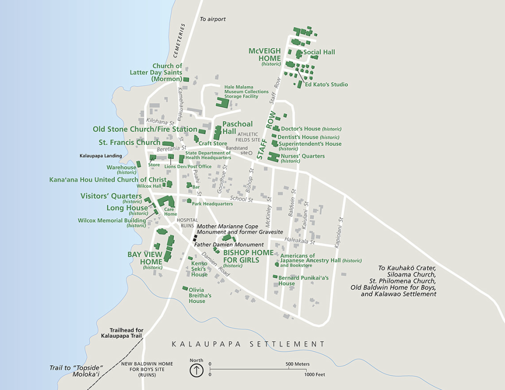 city map of Kalaupapa, Kalawao County, Molokai Island, Hawaii